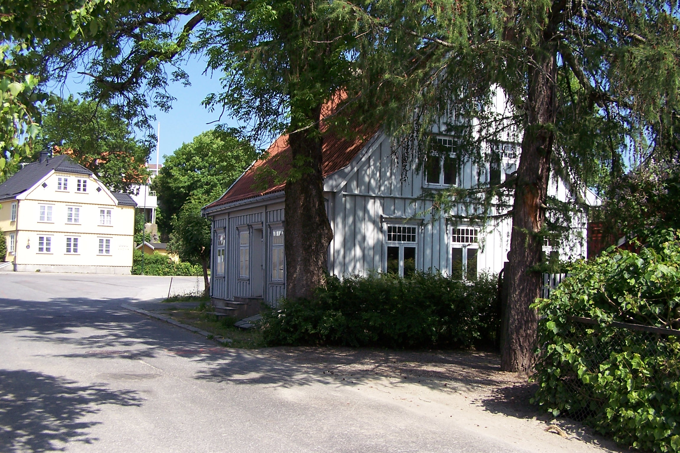 Hølen, "Thornegården". Nobel laureate Sigrid Undset lived there for a few months in 1911; her room was behind the right-most window on the ground floor.